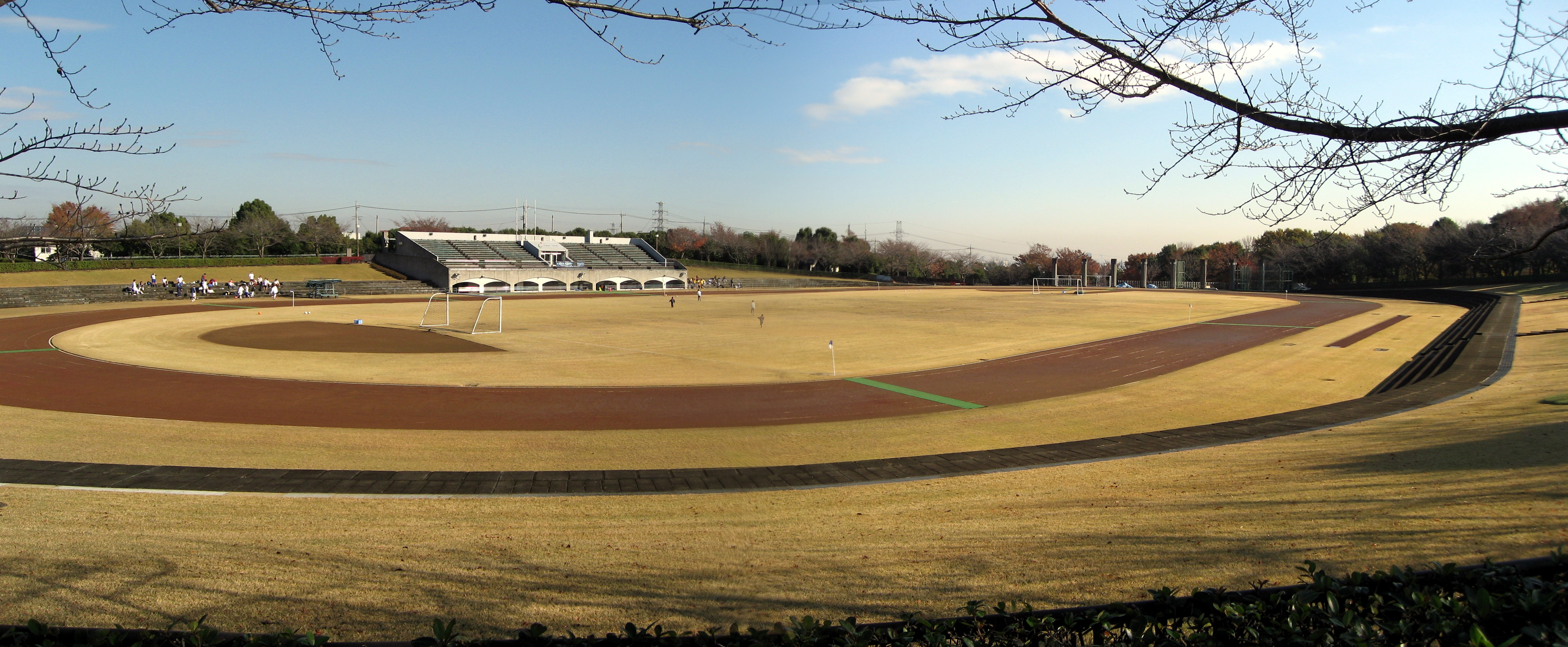 Inagi Chuo Park General Grounds, Inagi, Tokyo, Japan (Composite)